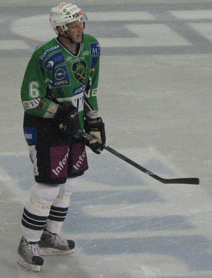 Picture of Boštjan Groznik, Slovenian ice hockey player.